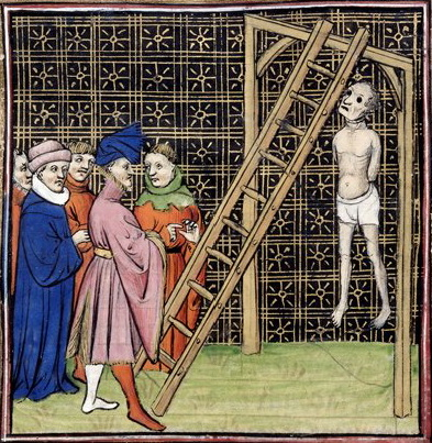 Enguerrand de Marigny being hanged. From the Chroniques de France ou de St Denis, BL Royal MS 20 C vii f. 51